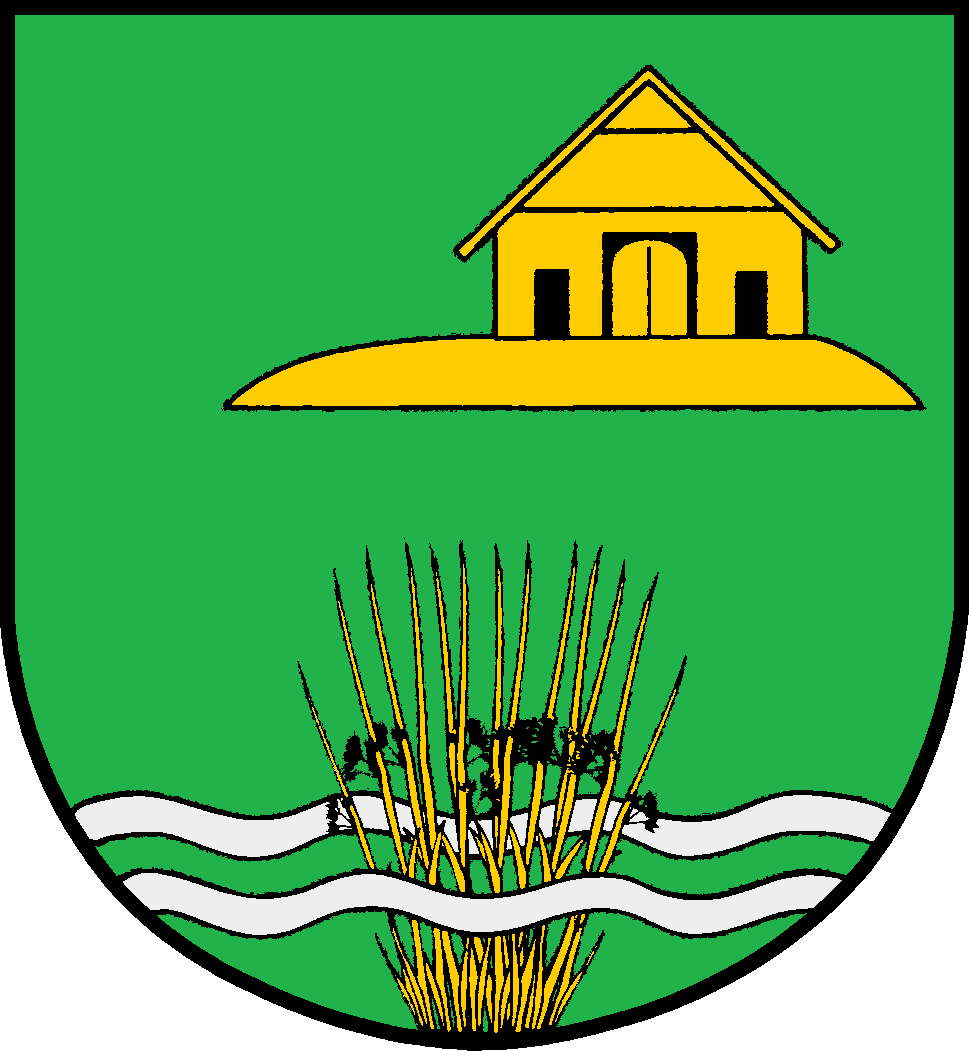 Coat of arms of the municipality Raa-Besenbek in Schleswig-Holstein, Germany.